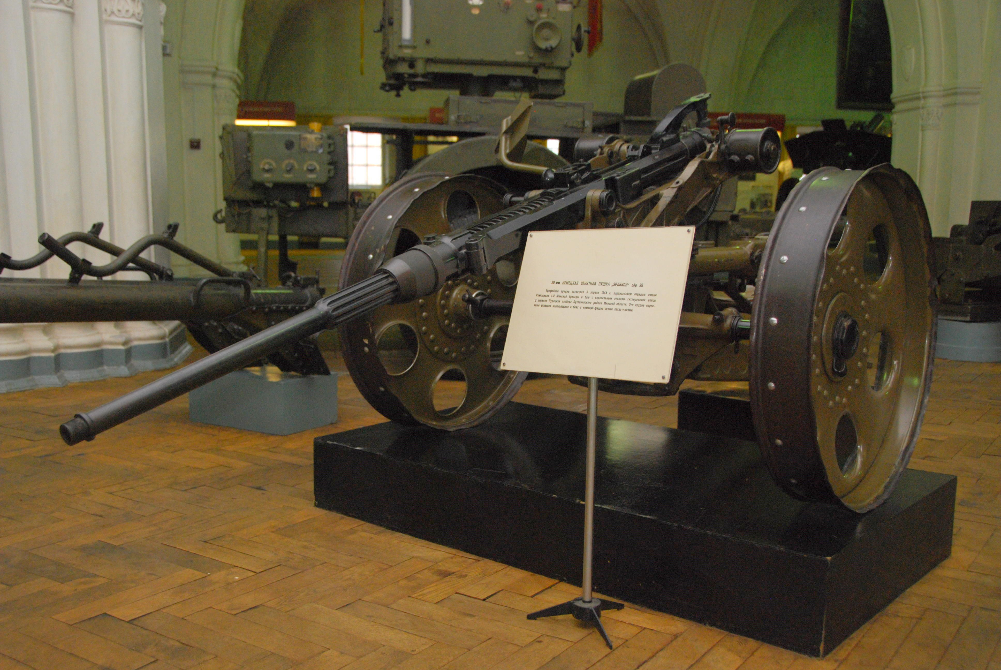 20 mm Oerlikon gun in Saint Petersburg Artillery museum